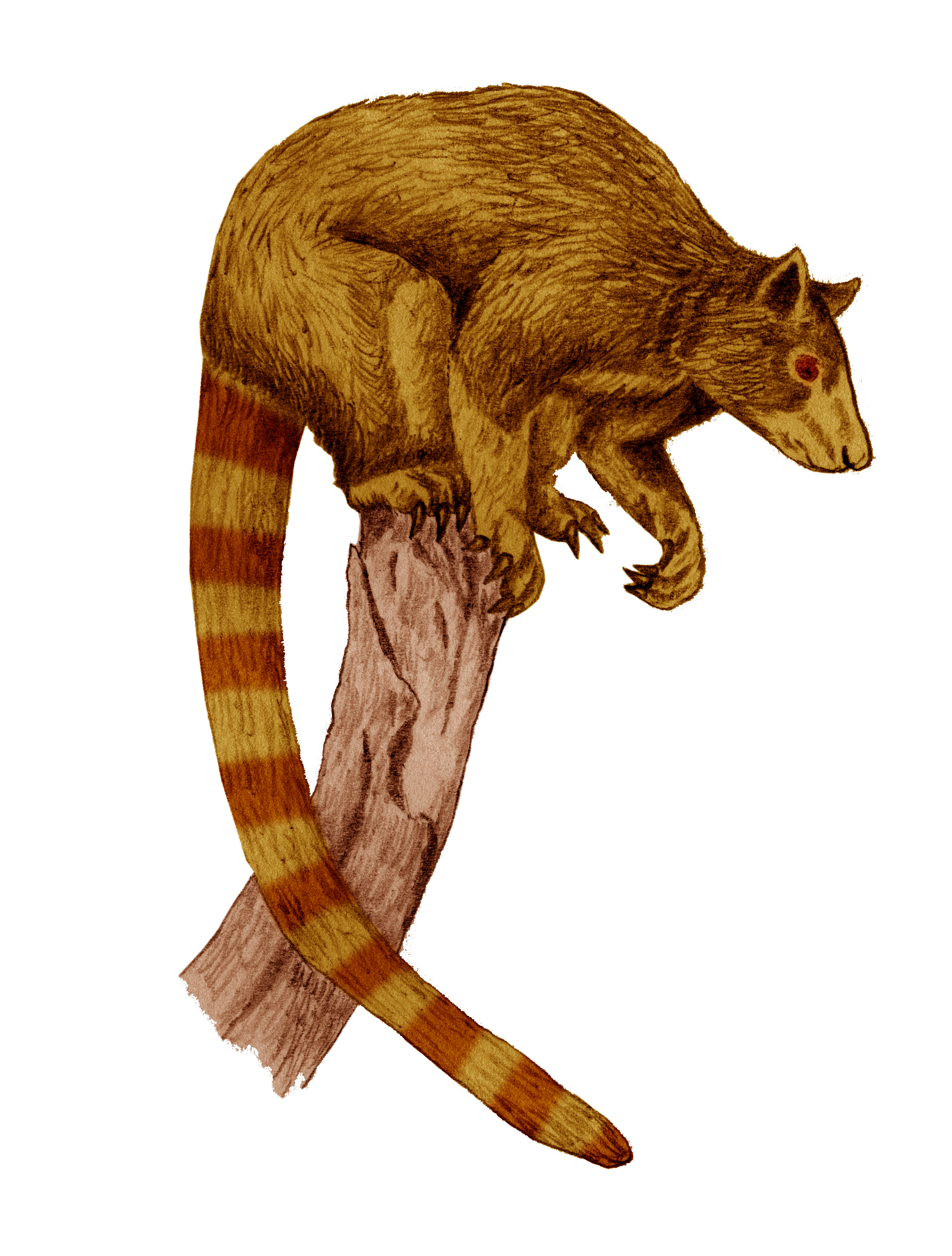 Restoration of Bohra paulae, an extinct tree-kangaroo